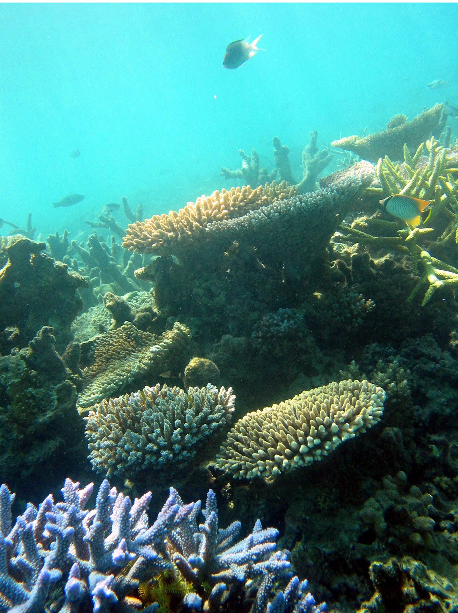 Diverse Coral Reef Systems Serve As Ideal Experiments for Niche and Neutral Theories. Organisms cover every square inch of coral reef, which led many to believe that their limited potential to partition resources into niches would make them a prime example of neutral dynamics. In fact, species diversity was more variable than would be assumed by neutral theory.